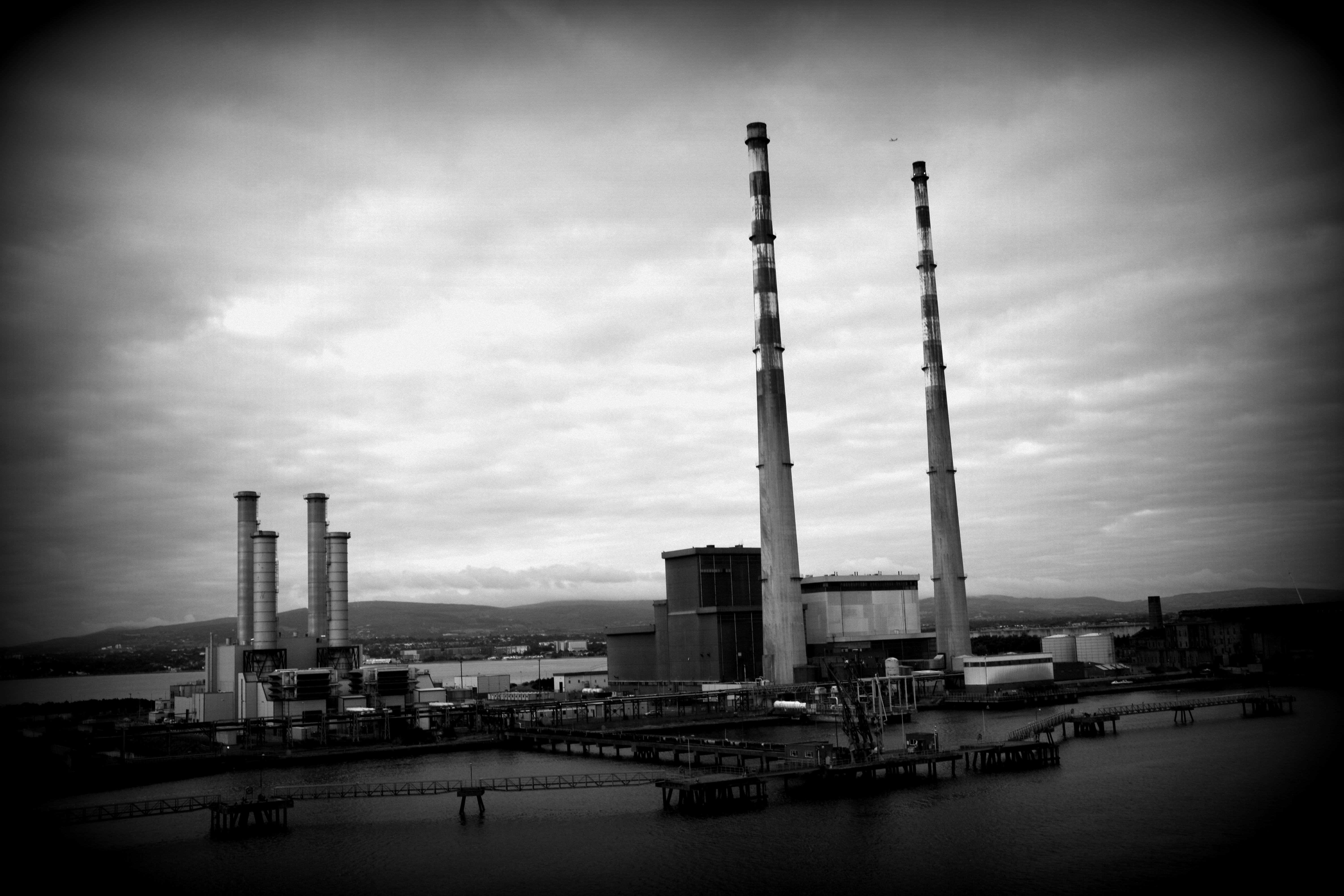 Poolbeg generating station after being closed down